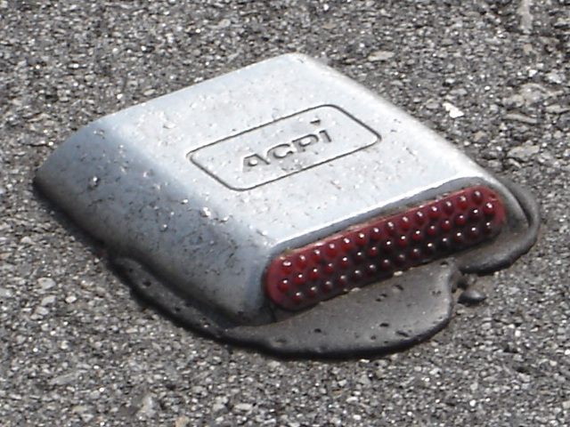 A cat's eye along Malaysia's North-South Highway